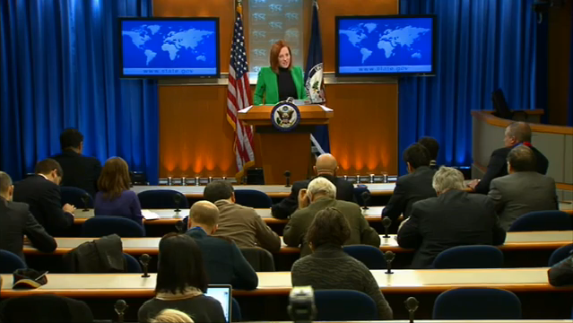 U.S. Department of State Daily Press Briefing by Spokesperson Jen Psaki, Feb 27, 2015